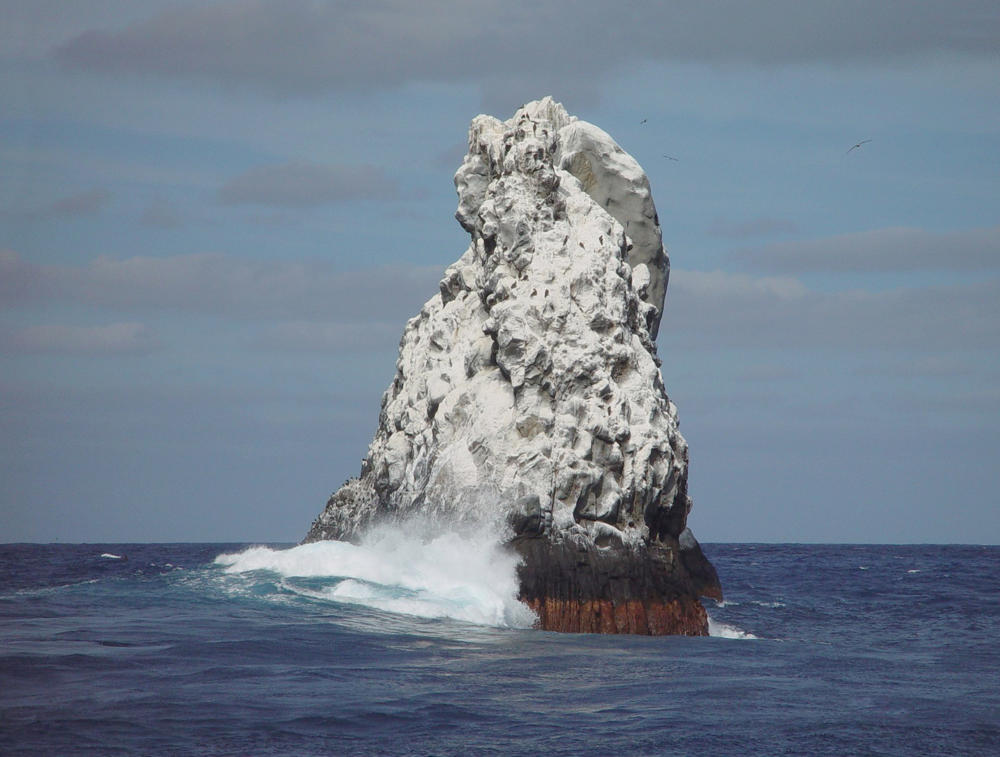 Isla Roca Partida, Revillagigedo Islands, Mexico